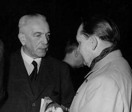 Konstantin von Neurath and Hermann Goering at the Nuremberg War Crimes Trials. Left to right, Konstantin von Neurath and Hermann Goering at the Nuremberg War Crimes Trials. Donor: Robert Jackson.